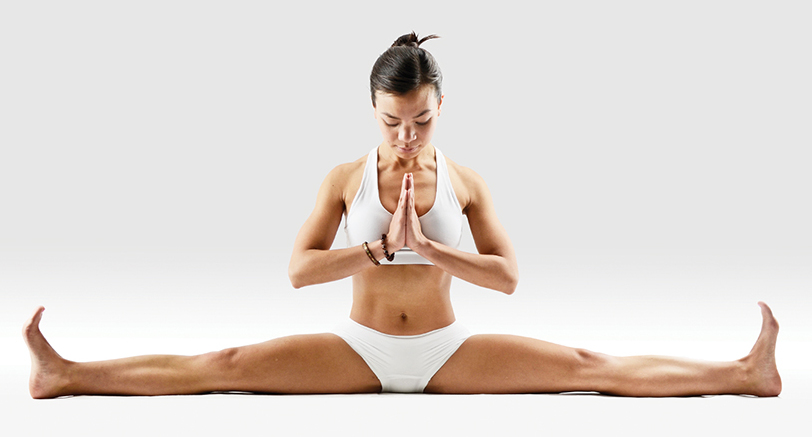 Mr-yoga-seated-angle-pose